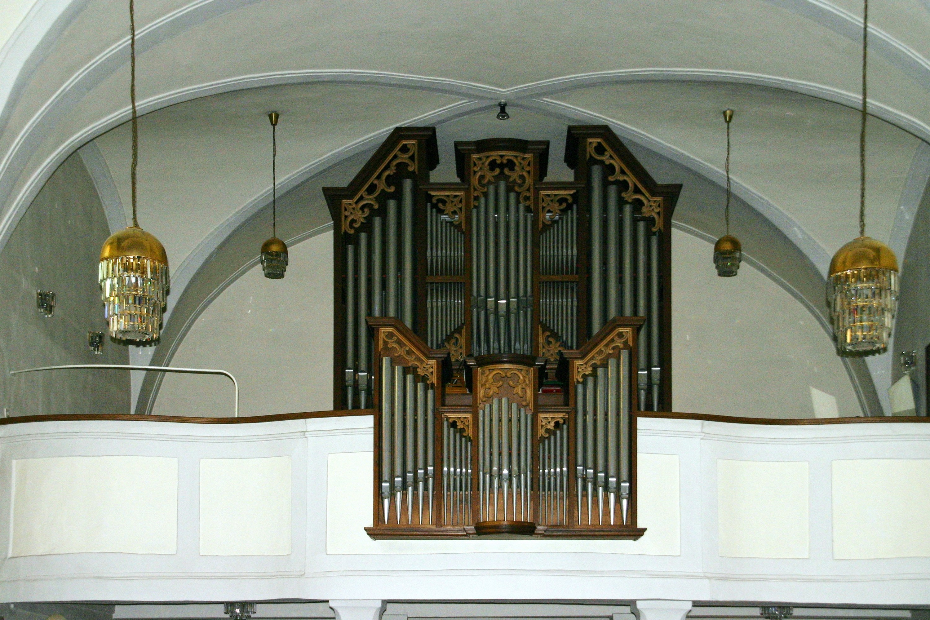 Parish church „Mariae Geburt“ - Neudörfl Object location47° 47′ 41.5″ N, 16° 17′ 56.08″ E